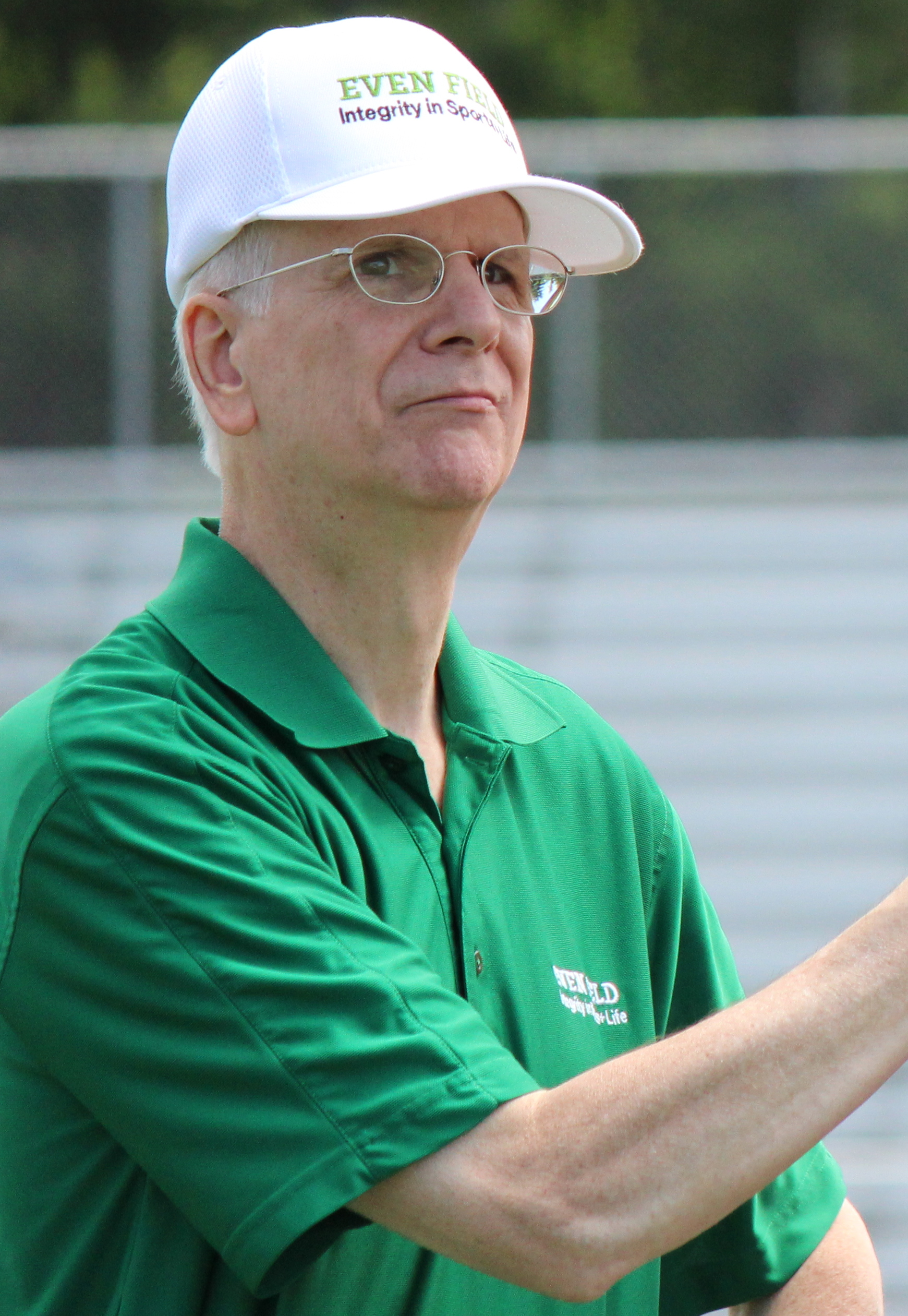 Chuck Wilson interview Garin Veris in Exeter, New Hampshire in 2015.